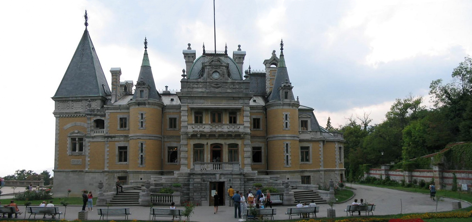 The eastern façade of the Masandrivsky Palace in Massandra, Ukraine. 14th-15th centuries.